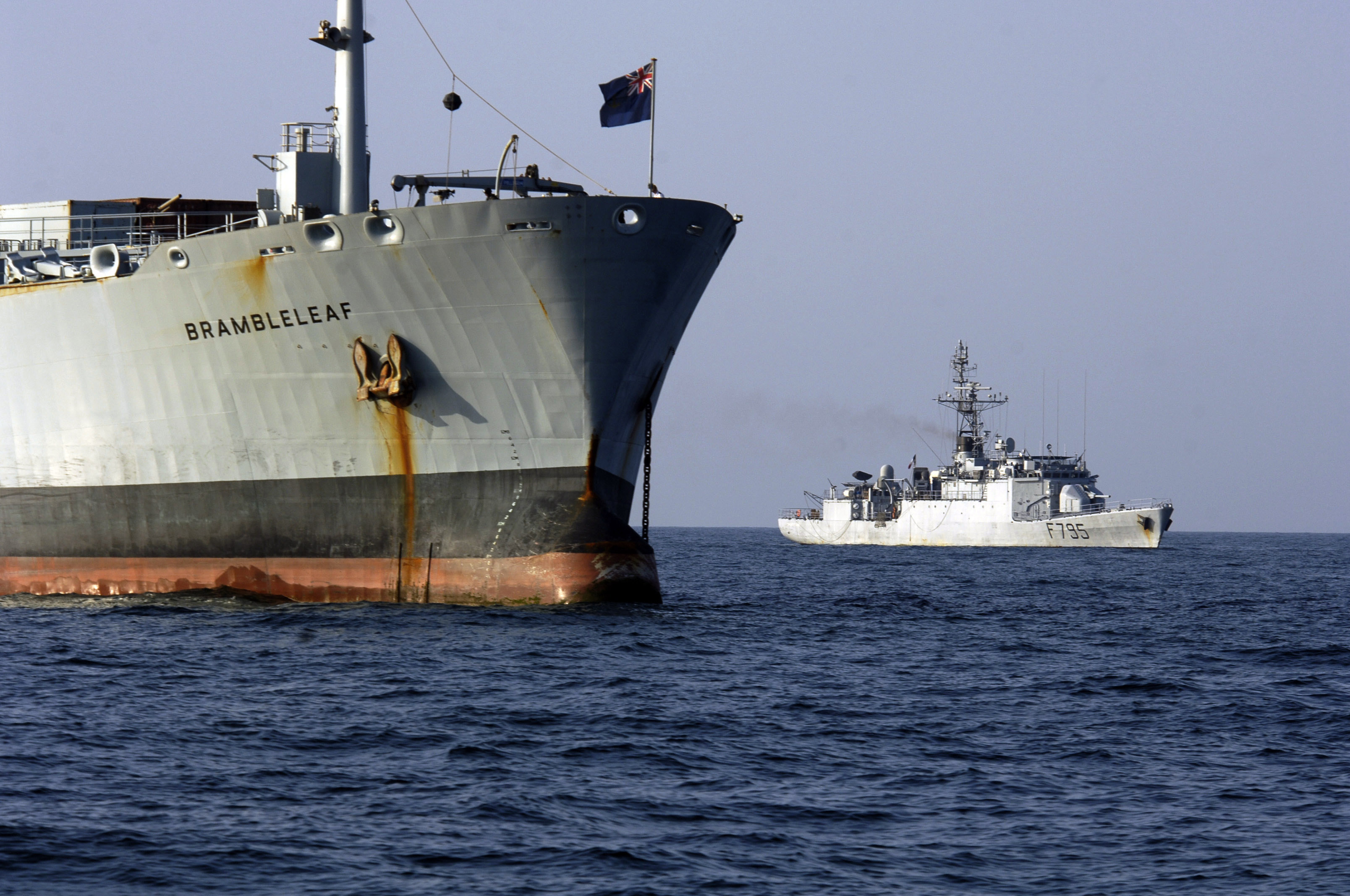 The French ship Commandant Ducuing (F 795) prepares to circle the British ship RFA Brambleleaf (A81) prior to performing a "visit, board, search and seizure" (VBSS) operation during Exercise "Leading Edge" in the Arabian Gulf on the 30th of October 2006. Naval and law enforcement personnel from Australia, Bahrain, France, Italy, the United Kingdom, and the United States participated in the exercise. Exercise Leading Edge is the maritime portion of a two-phase, multi-national proliferation security initiative (PSI) exercise. PSI is a response to the growing challenge posed by the proliferation of WMD, their delivery systems, and related materials worldwide.